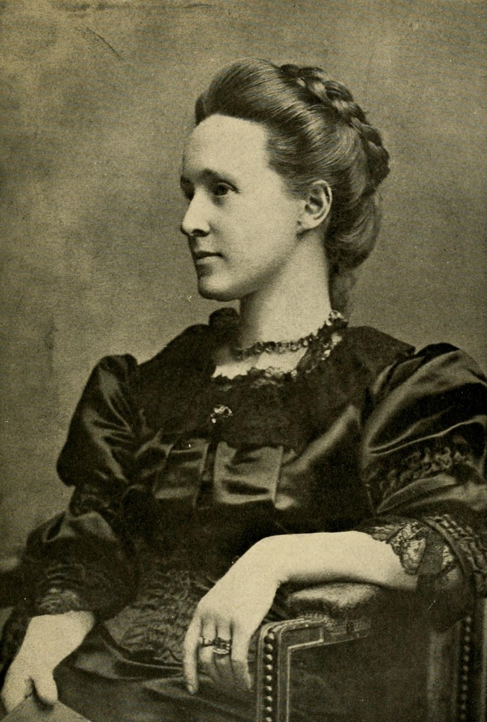 Portrait of Millicent Fawcett